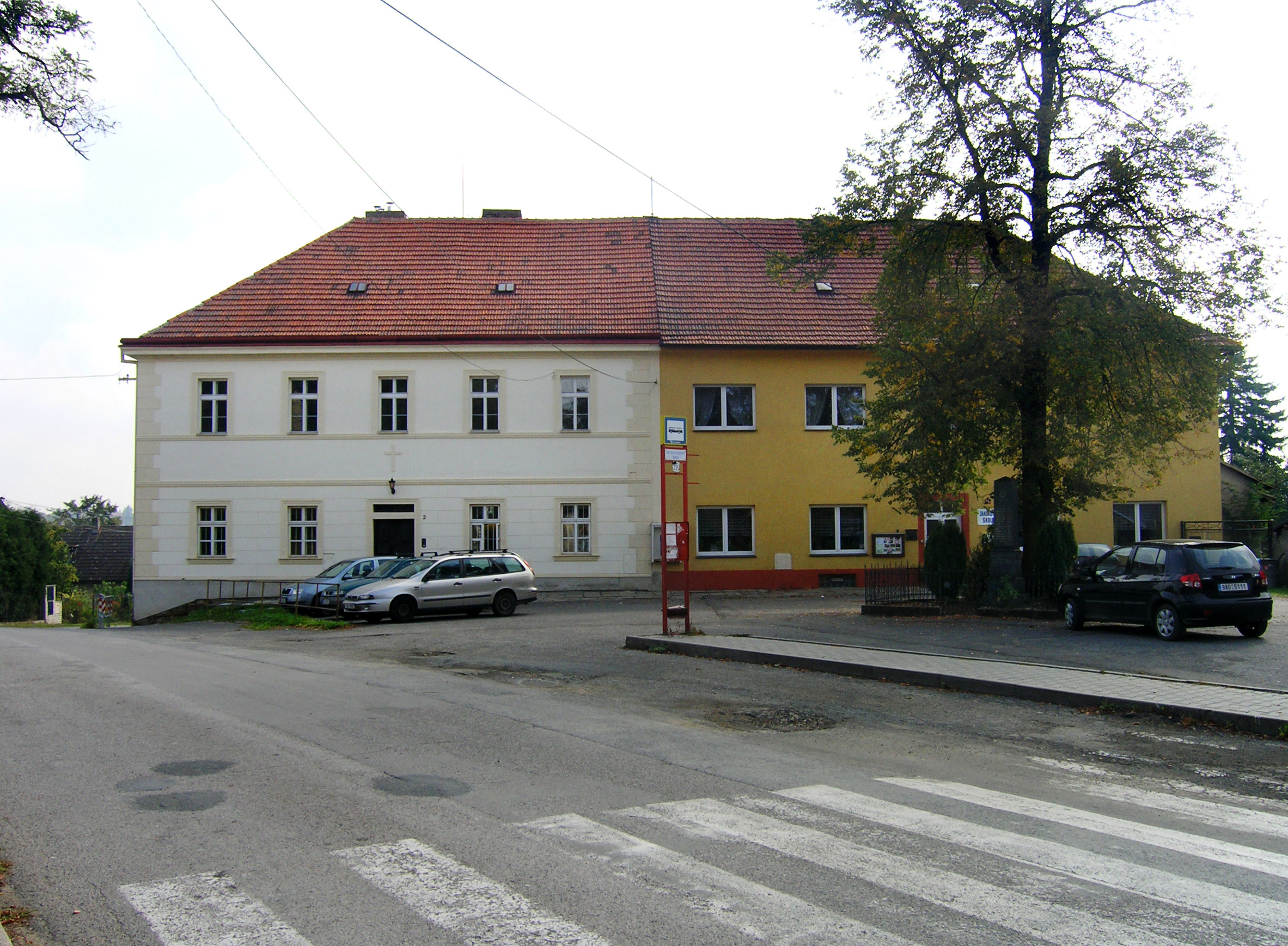 Elementary school in Kostelec u Křížků, Czech Republic